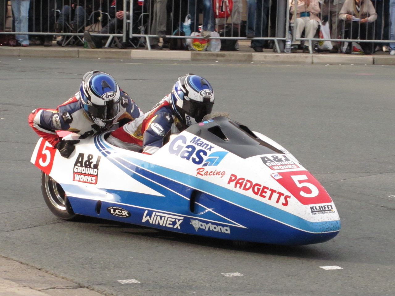 Klaus Klaffenbock and his co-rider on a Louis Christen Racing sidecar at 2010 Isle of Man TT